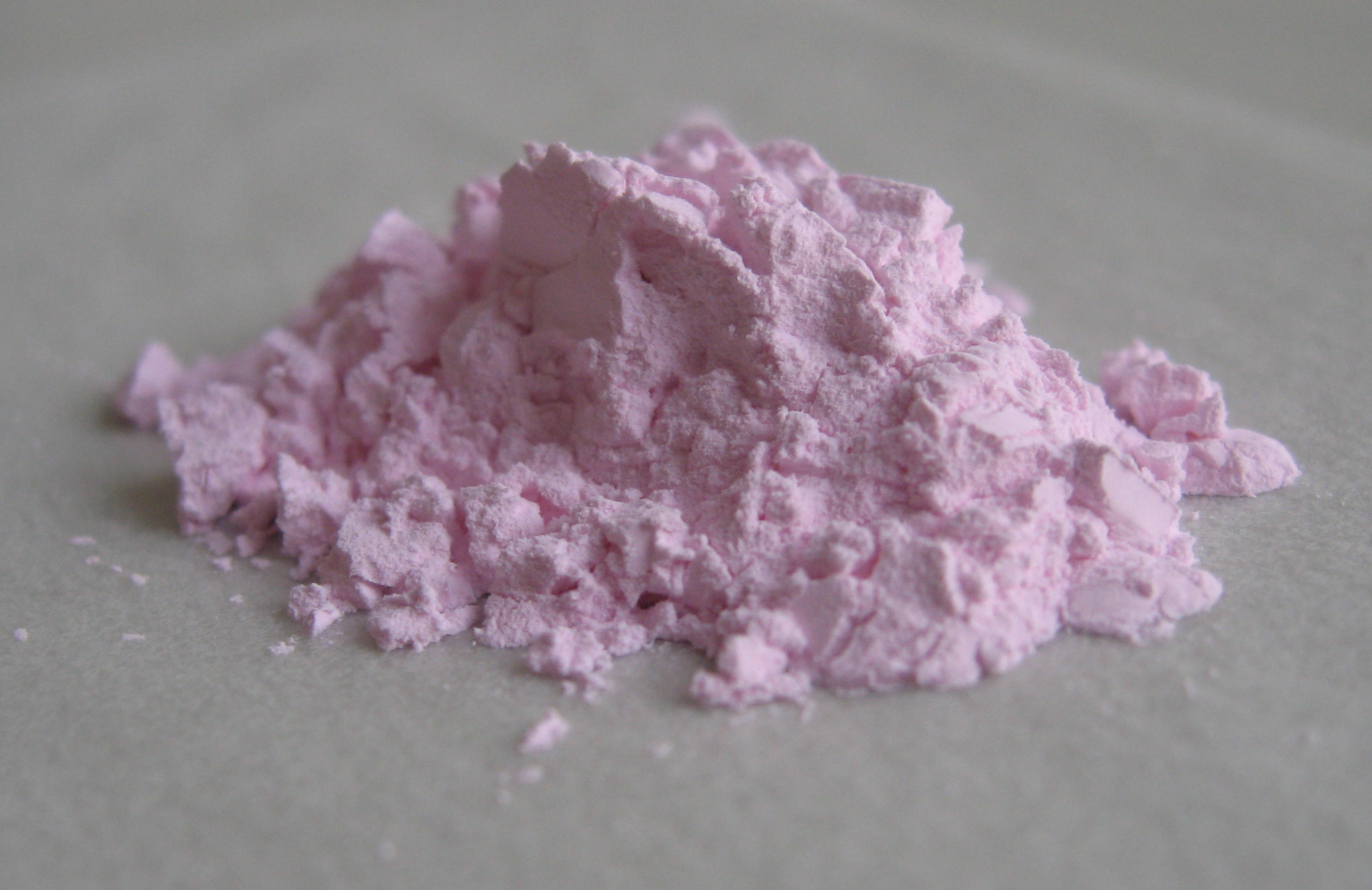 Erbium(III)oxide (Erbia) Powder Sample